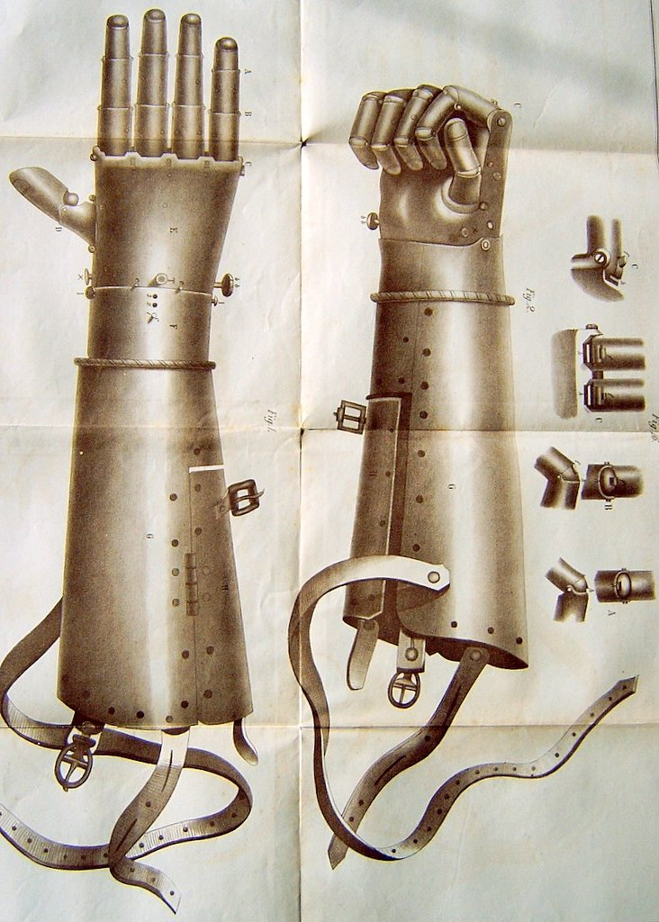 The Iron Hand (Eiserne Hand) of Götz von Berlichingen